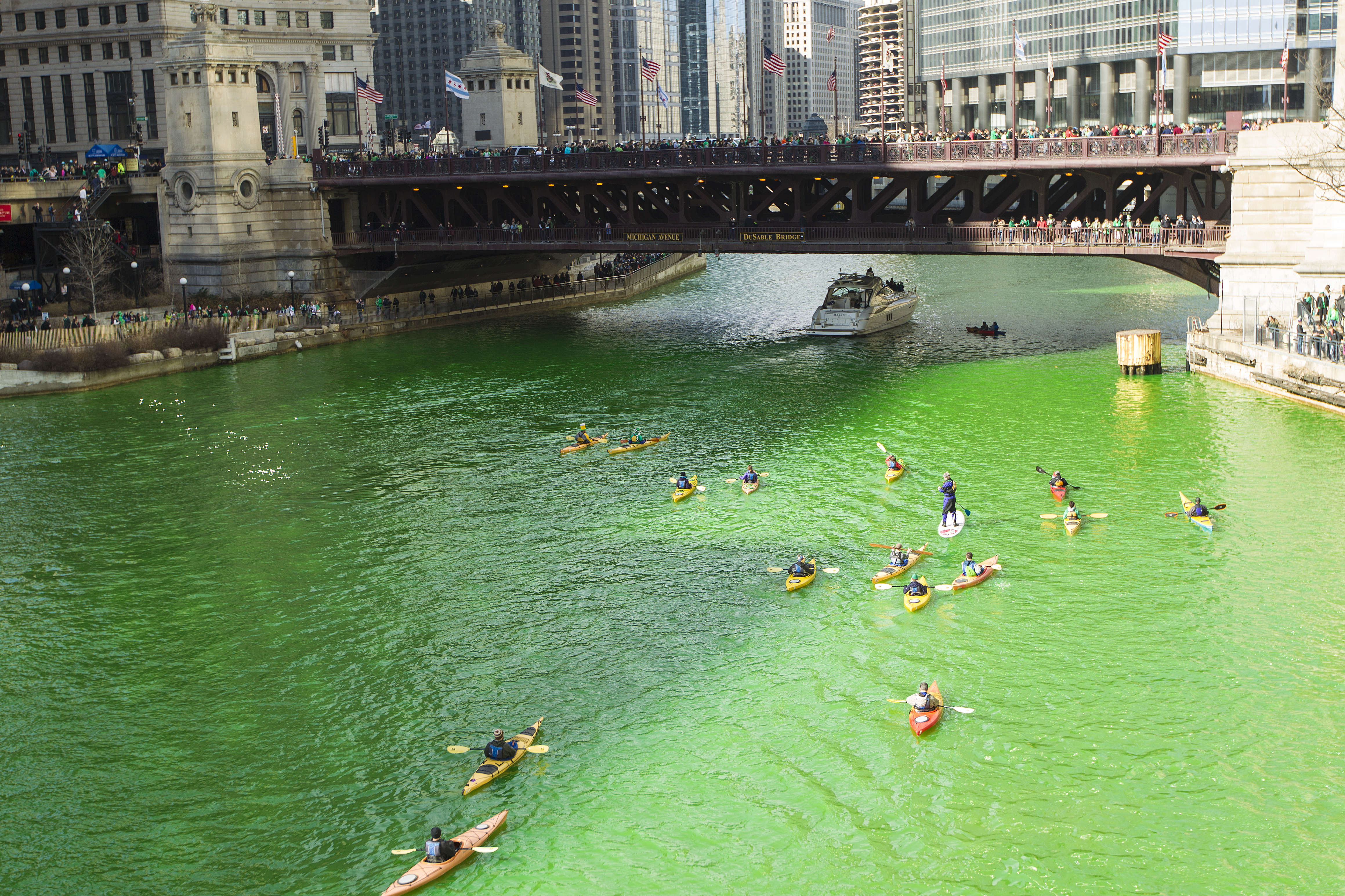 Kayakers paddle along a bright-green river during the annual dying of the Chicago River for St. Patrick's Day celebrations.